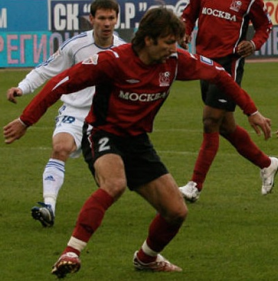 in action for FC Moscow